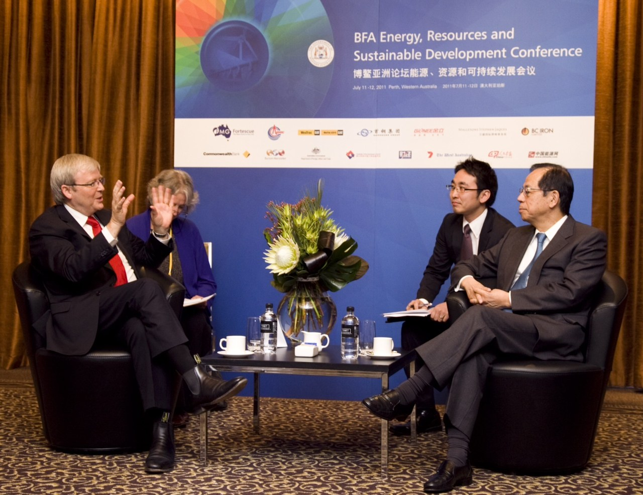 Kevin Rudd, Minister for Foreign Affairs, talked with Yasuo Fukuda, Chairman of the Boao Forum for Asia, at the Boao Forum for Asia Conference in Perth City, Western Australia State on July, 2011.